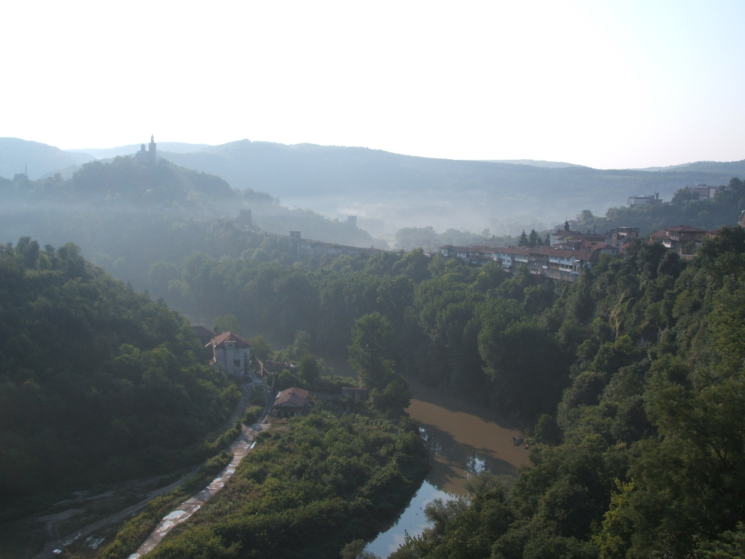 Morning view of Tsarevets and part of the old town of Veliko Tarnovo, Bulgaria